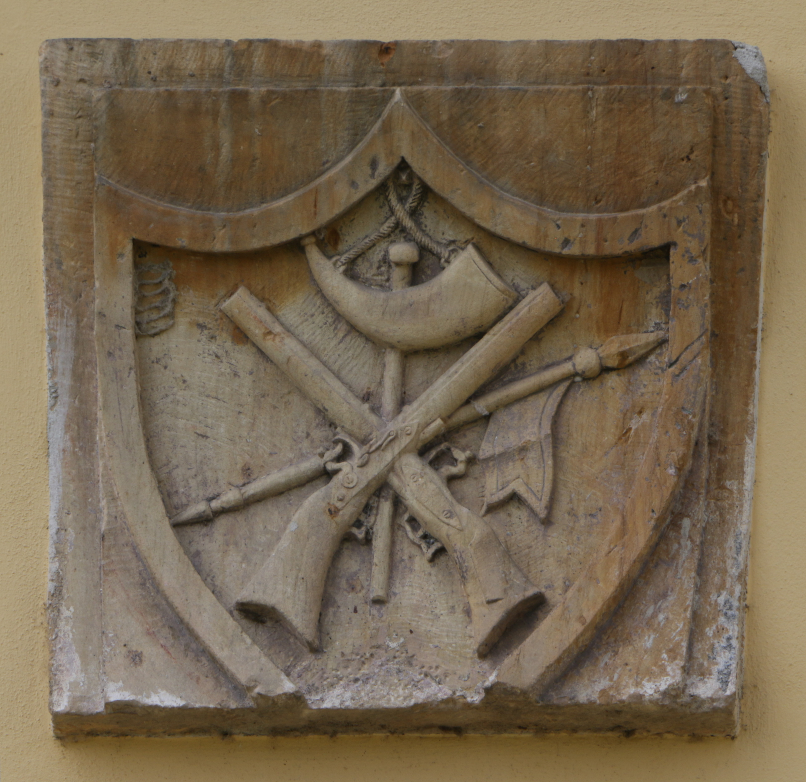 Historical coat of arms of Litovel shooting company, placed on the building of the Museum Litovel (former shooting range).